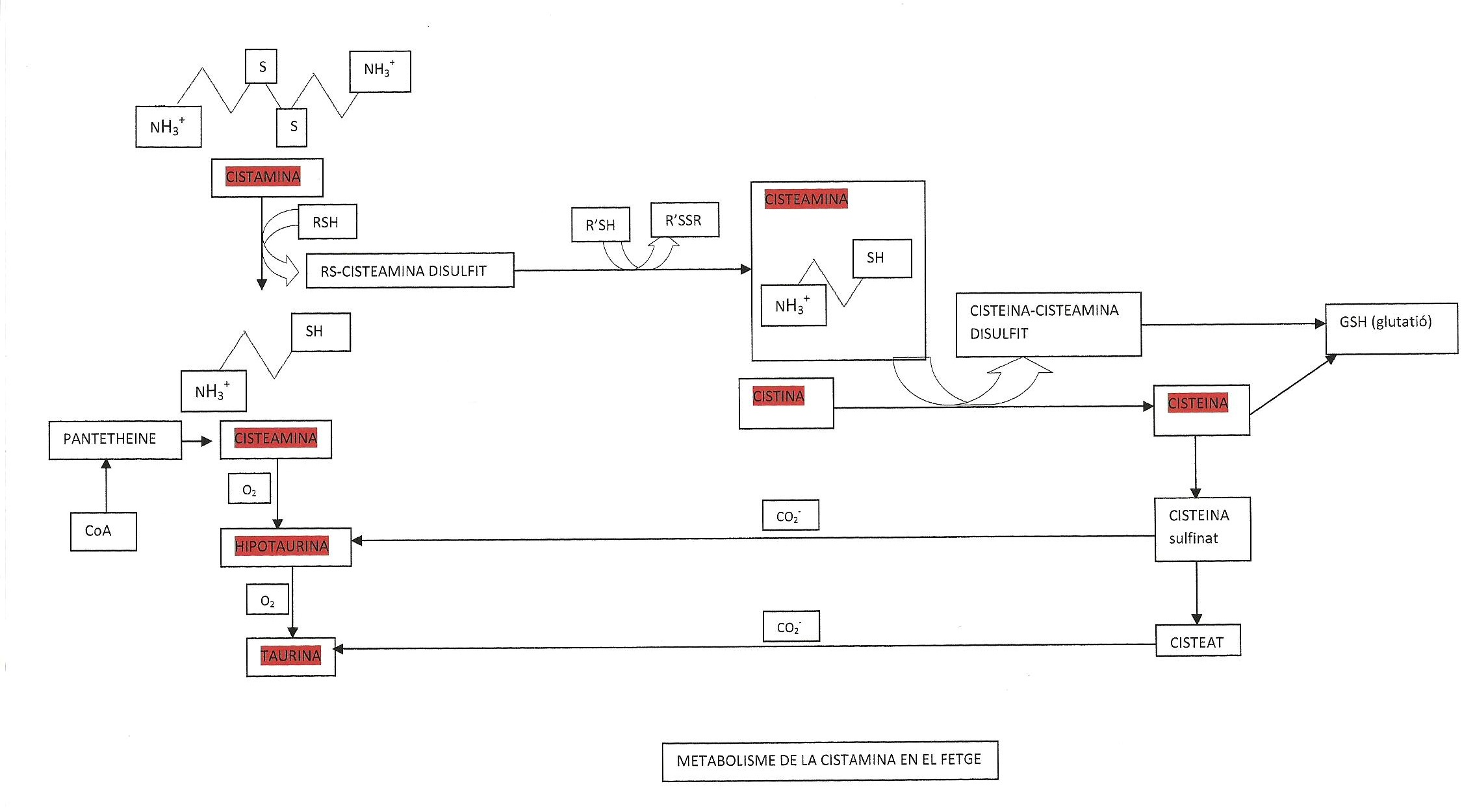 cystamine metabolism